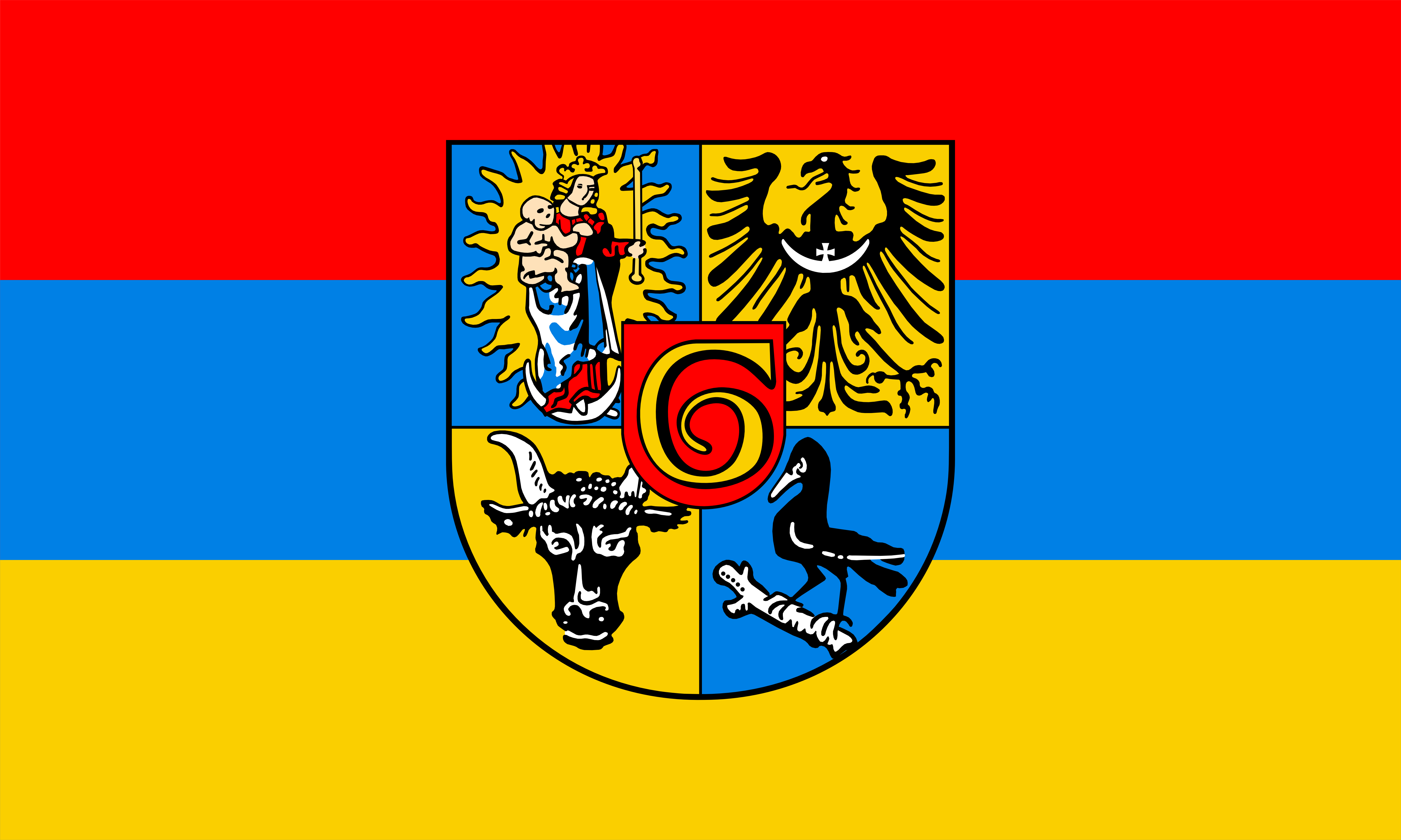 Flag of the city of Glogau (today Głogów)